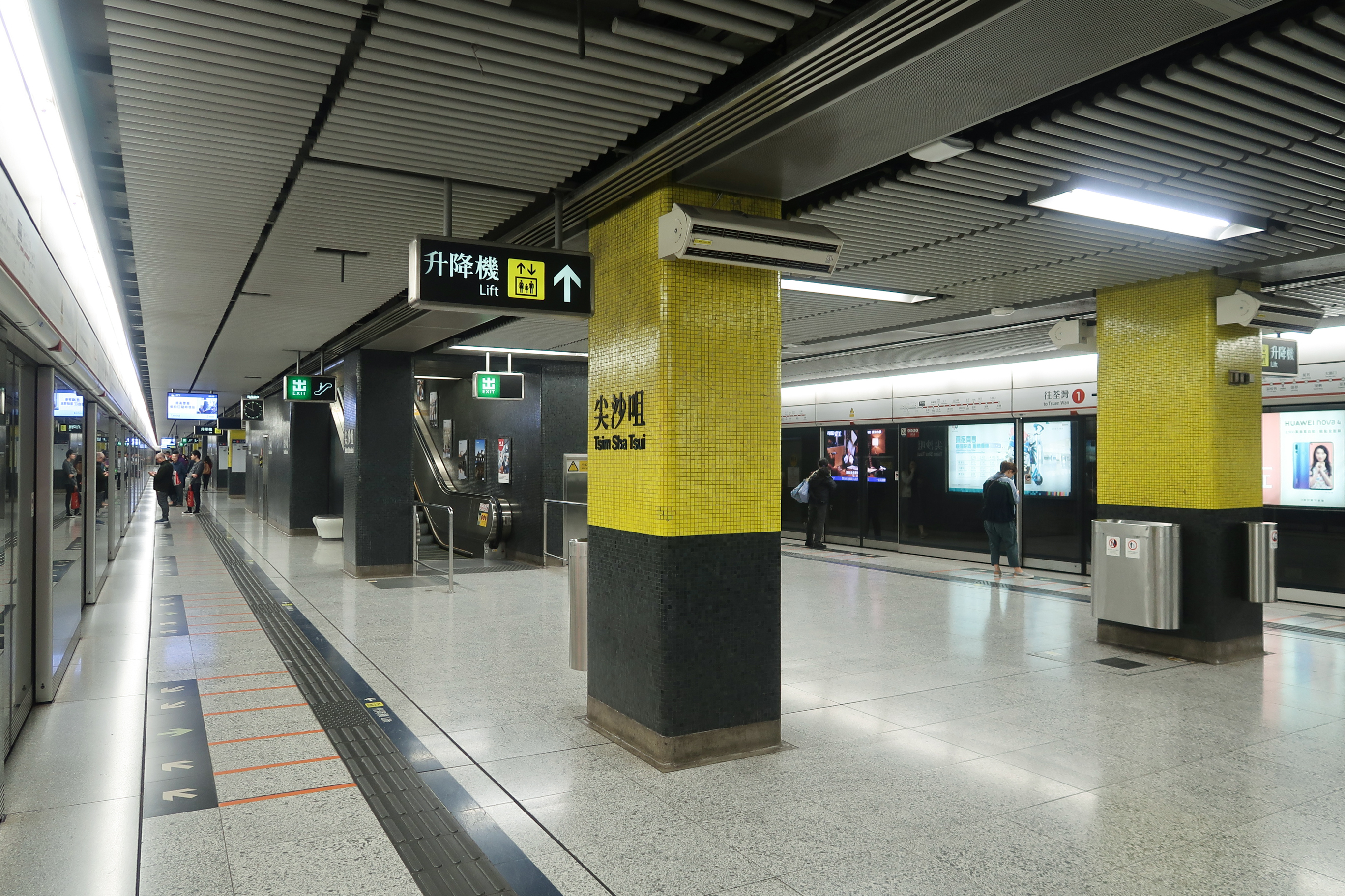 Tsim Sha Tsui Station Platform